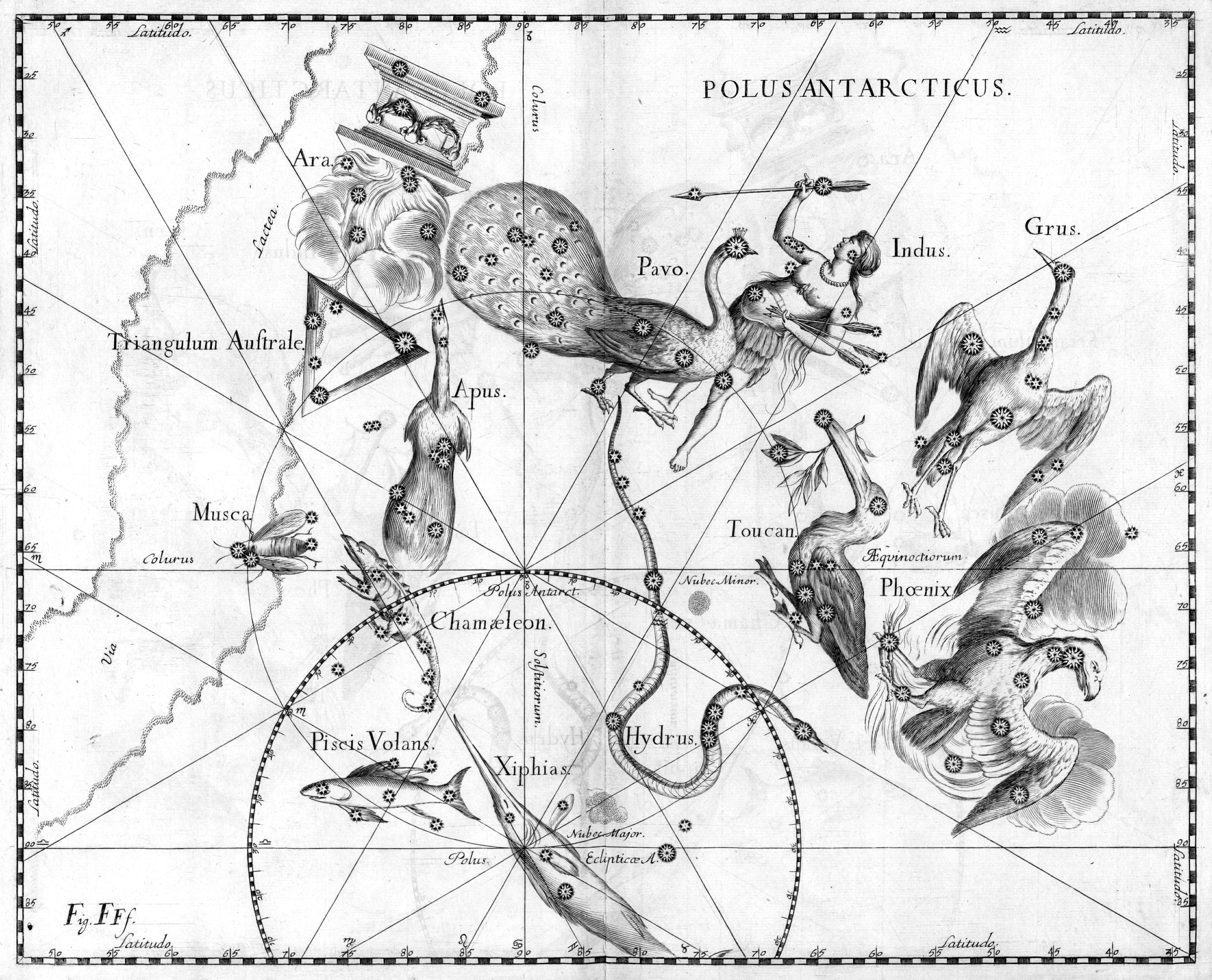 Johannes Hevelius, Prodromus Astronomia, volume III: Firmamentum Sobiescianum, sive Uranographia, table FFF: South Pole, 1690.